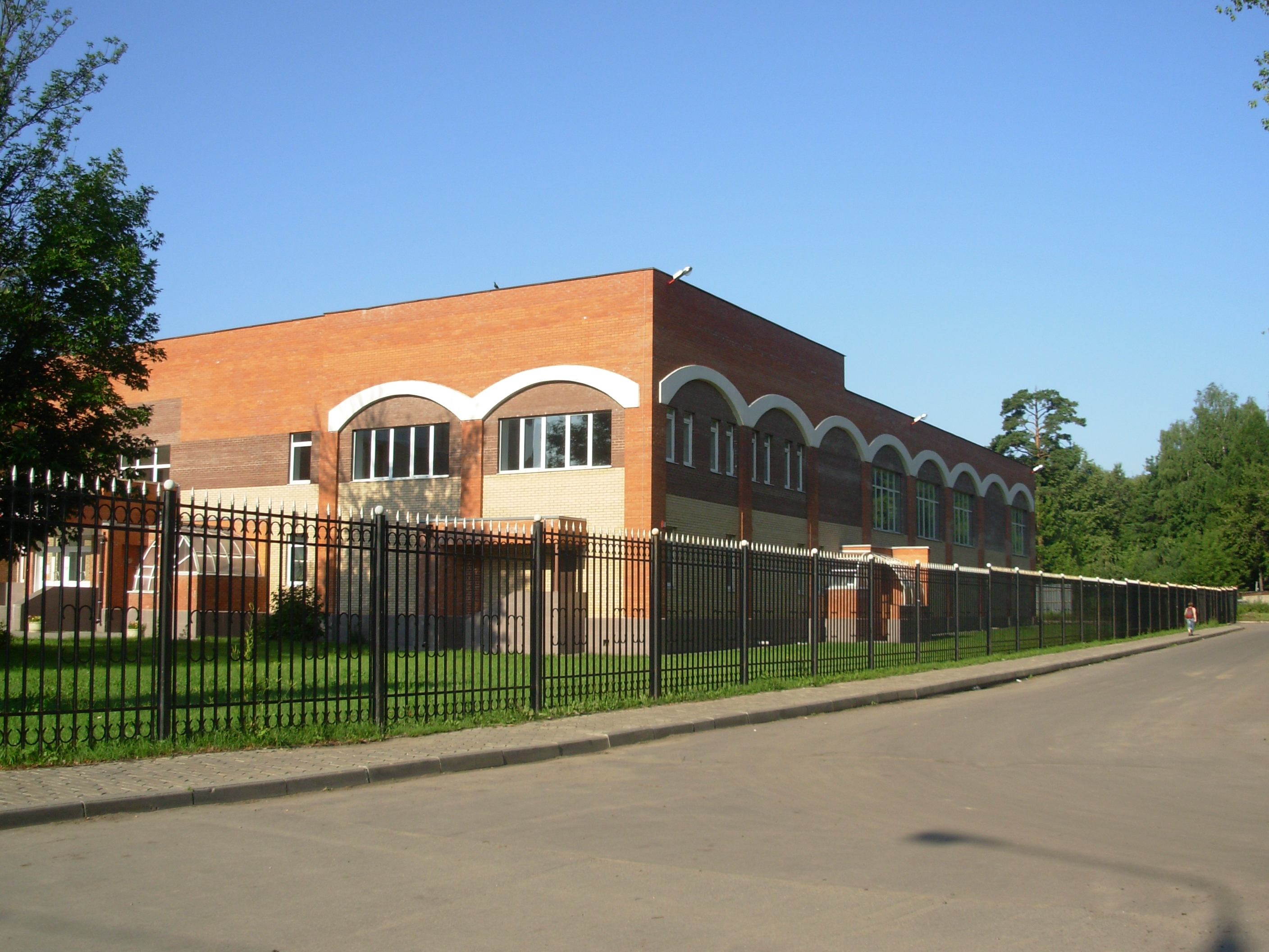 The MSFU Sports Complex building with a swimming pool and gym.